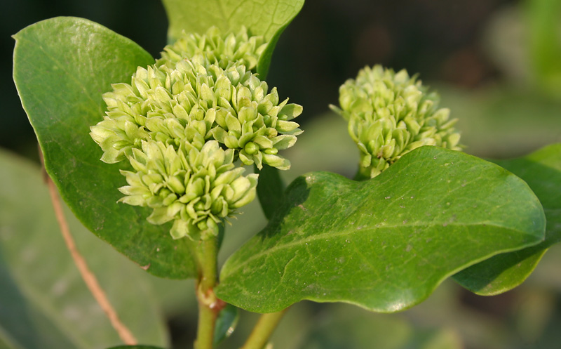 Ixora pavetta- small-flowered ixora, torch tree, torchwood ixora, jilpai, kotagandhal, lohajangin, mashal-ka-jhar, goravi, koravi, kurati, soochimulla, goravikatagi, maakadi, raikura, nemali, nevali, culuntu, koran or koravi near Hyderabad, India.